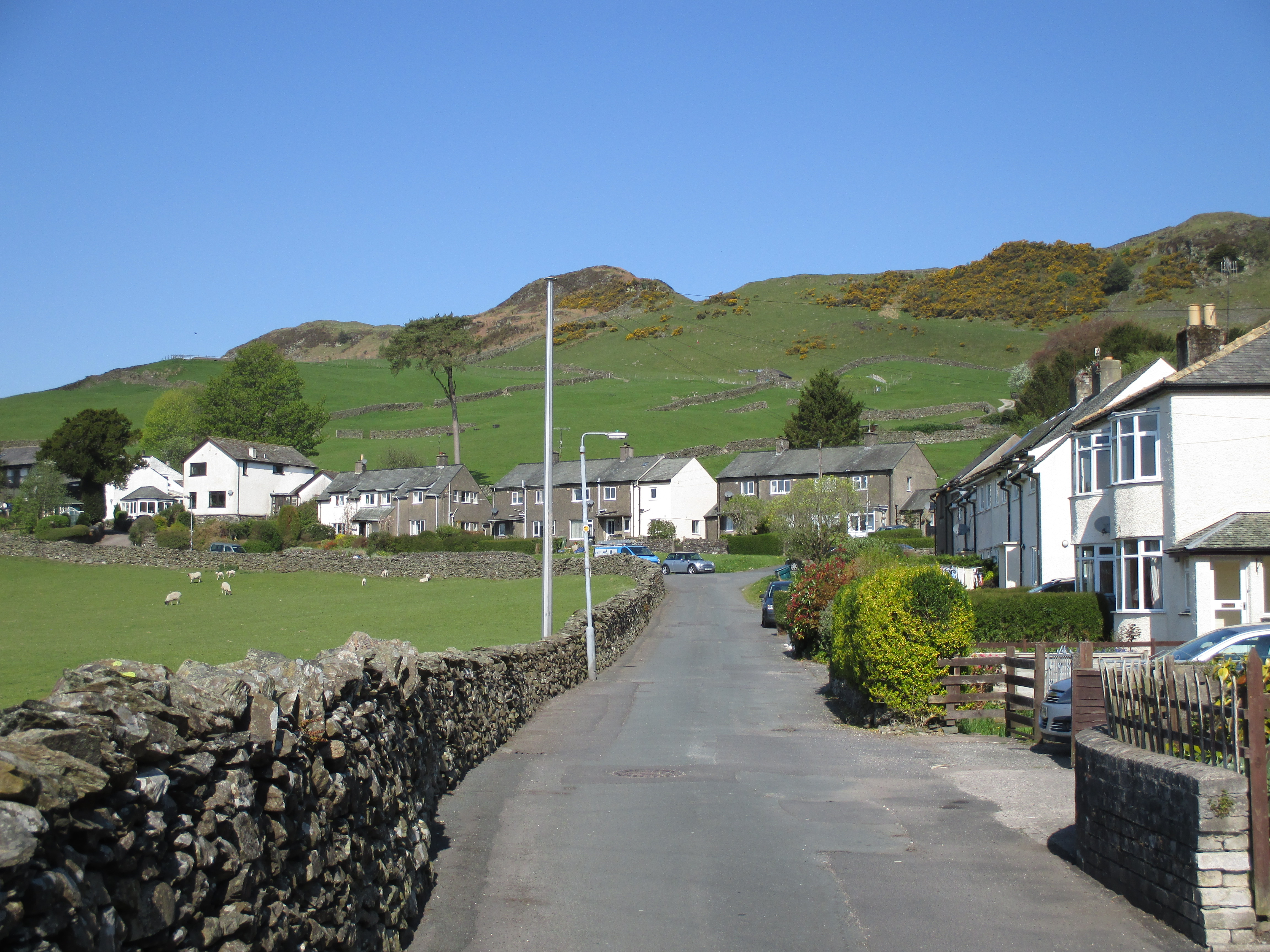 School Lane, Staveley, Cumbria, leading to Brow Lane. Reston Scar is in the background.